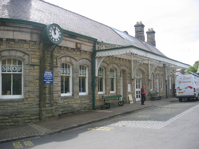 Barter Books, Alnwick. This impressive bookshop was created from the disused Alnwick Railway Station.